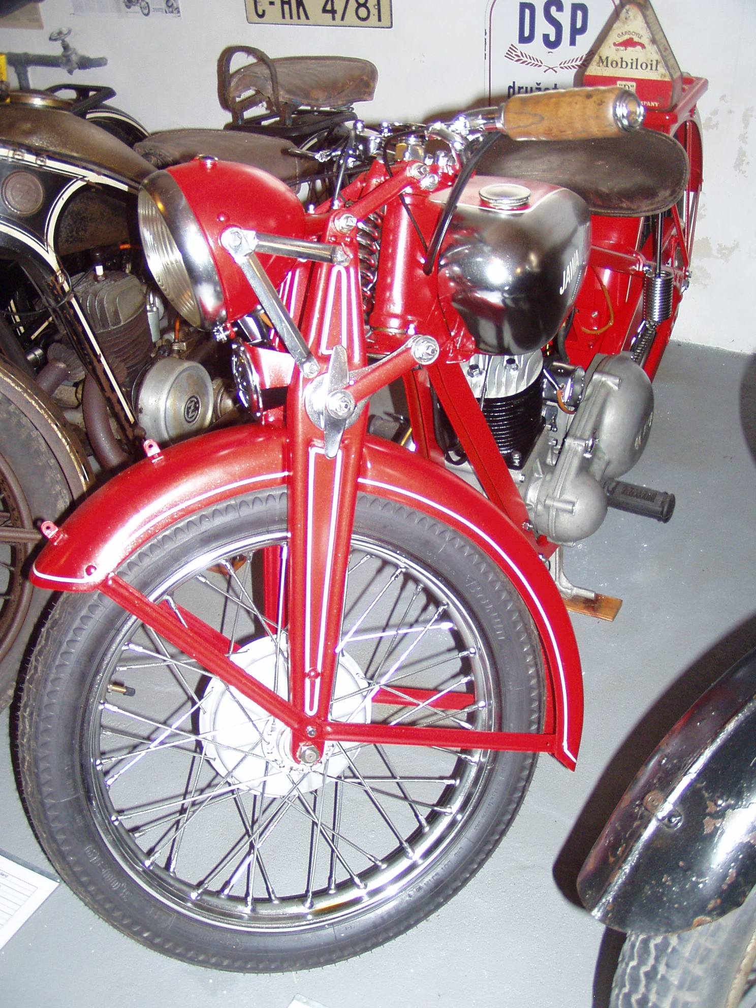 Jawa 350 SV (1934)